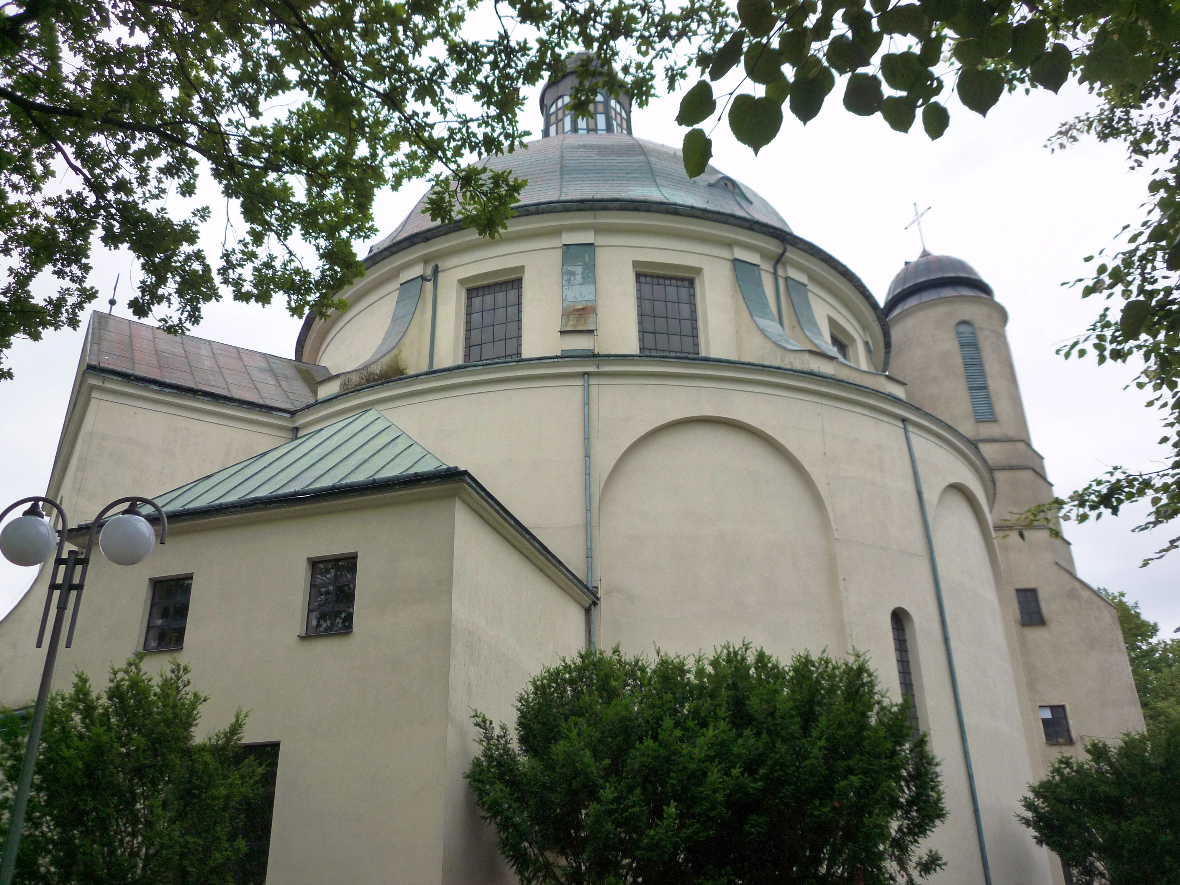 Hodyszewo, Poland - the parish church of the Assumption of Our Lady